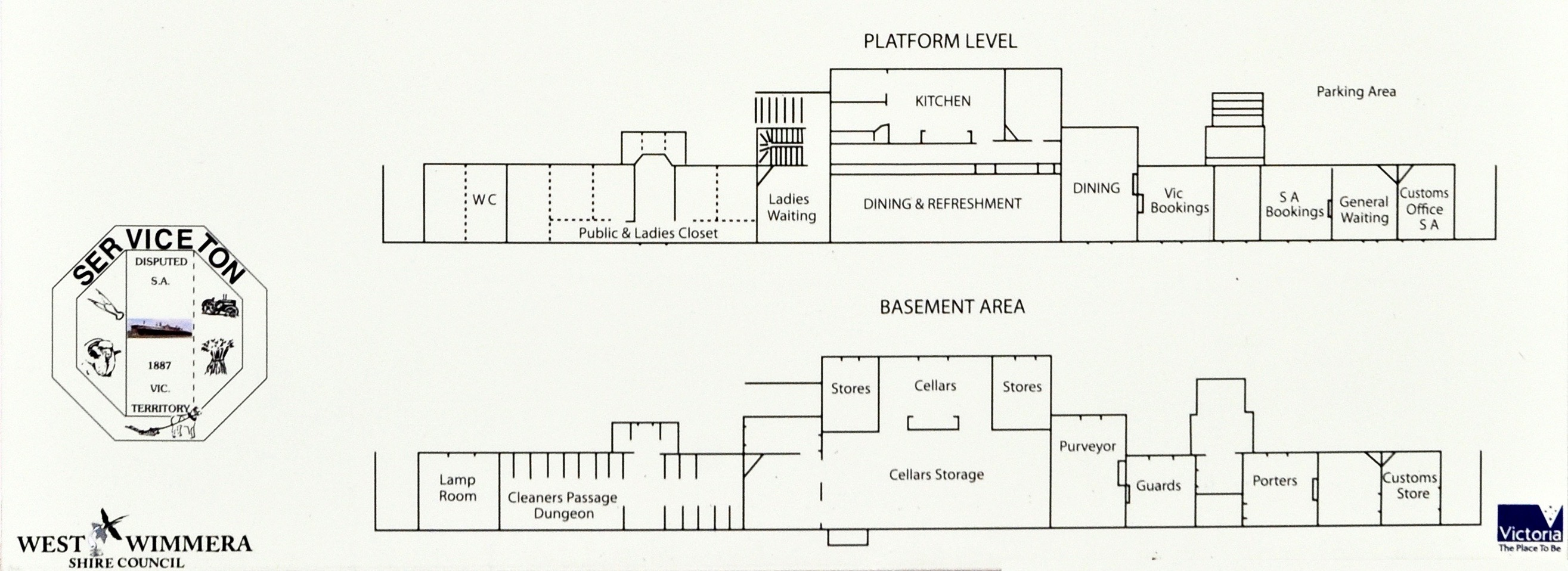 Serviceton Train Station Floor Plans